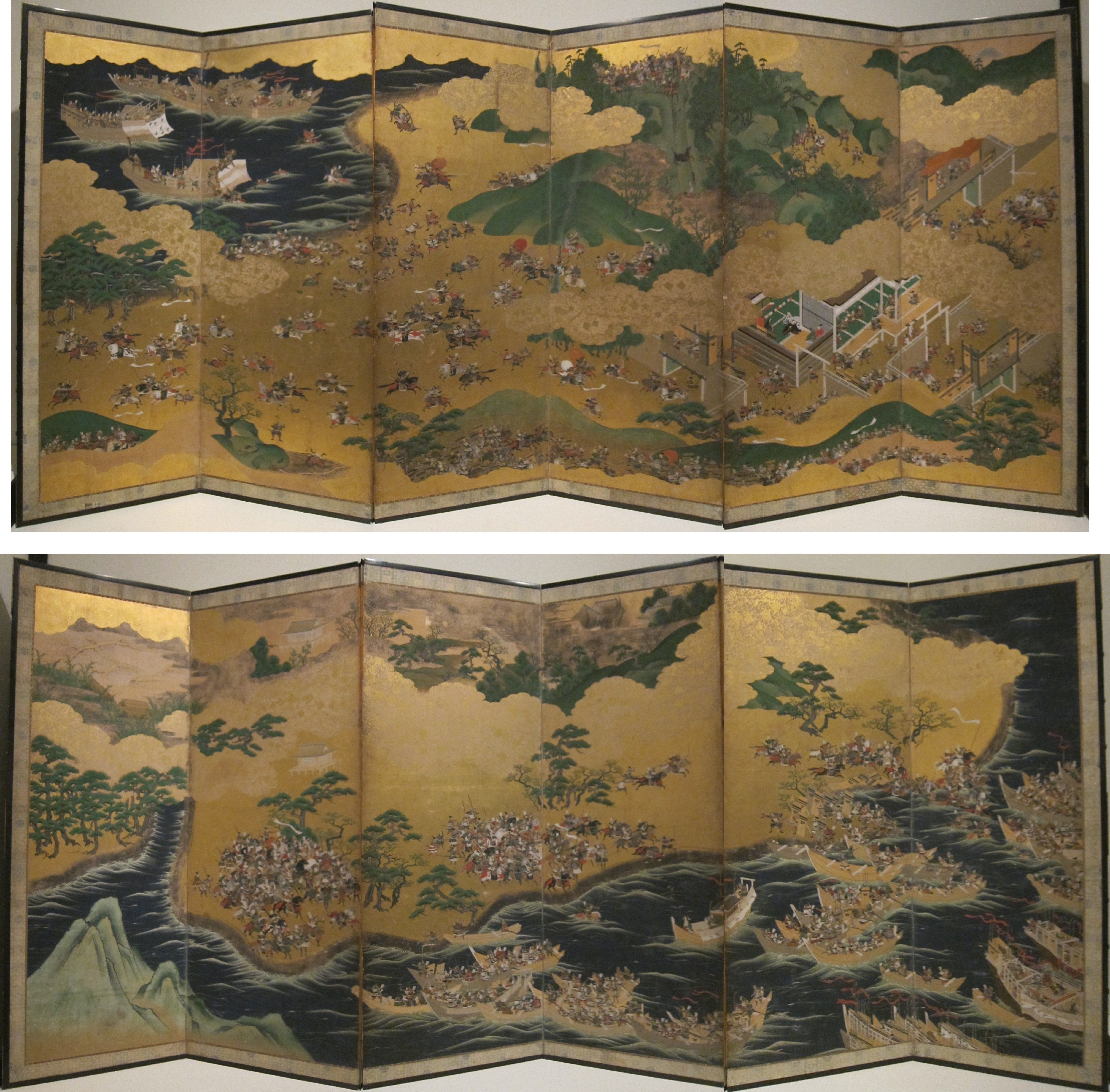 Unknown artist of the Kano school, Screens with Scenes from the Tales of Heike, c. 1650-1700. Ink, gold, colors on paper, Clark Center for Japanese Art and Culture